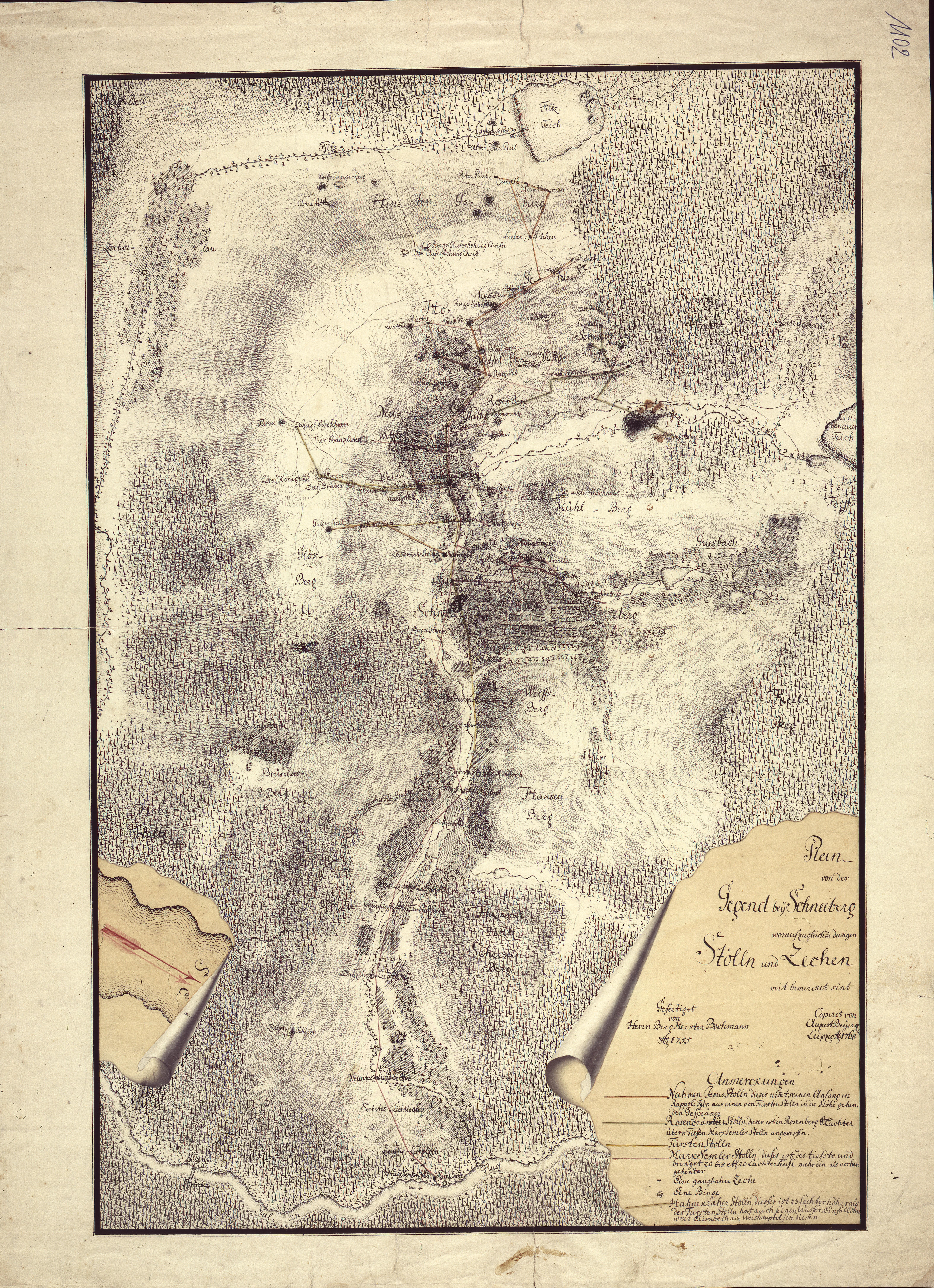 Plan of the adit Marx Semler Stolln near Schneeberg